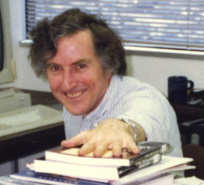 Bob Braden plots the future of the paperless office. Photo taken for Exploring the Internet.